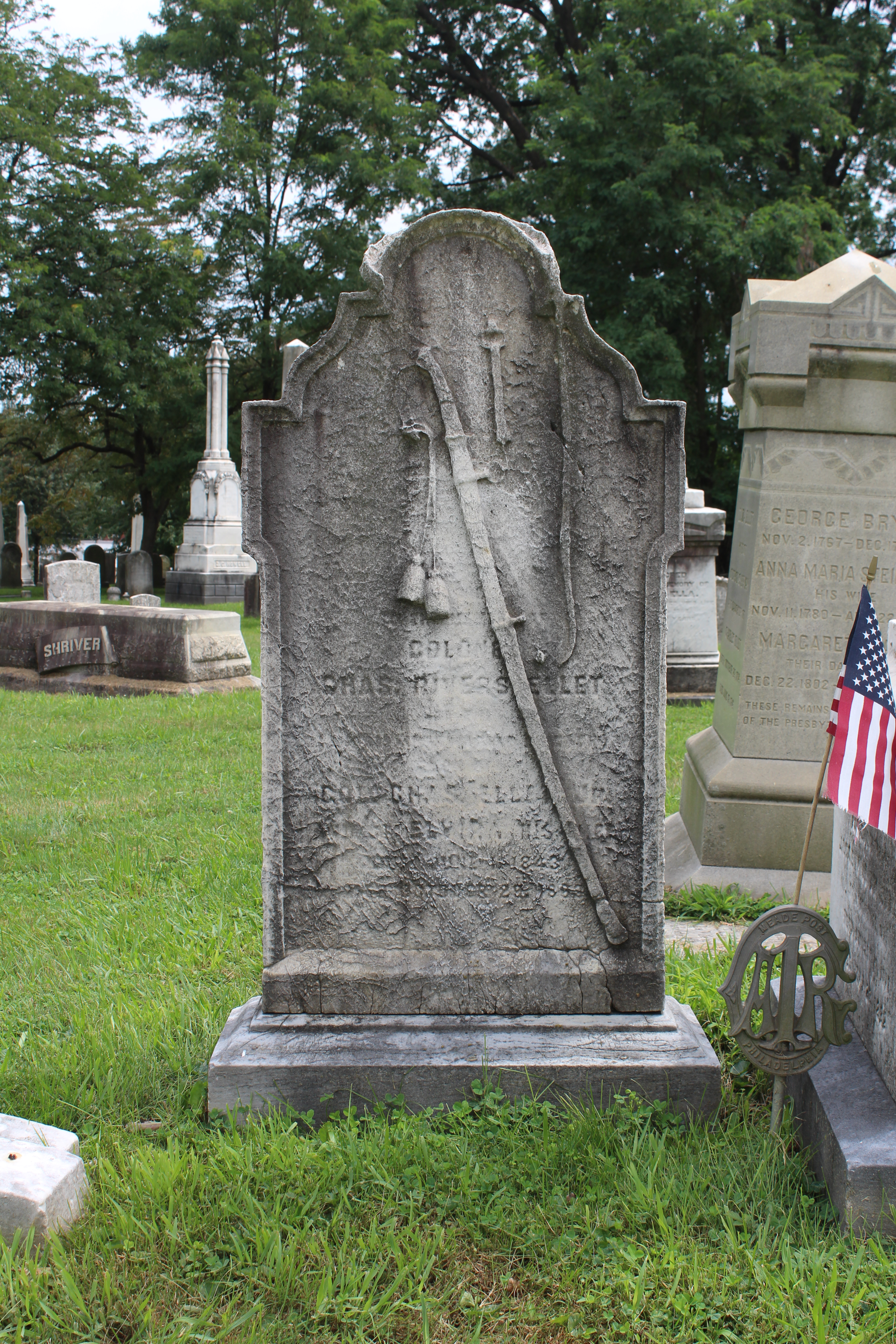 Charles Rivers Ellet Gravestone in Laurel Hill Cemetery. Photo taken August 2020.